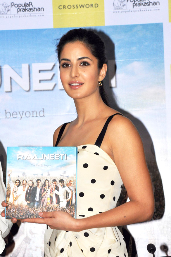 Katrina Kaif at Book launch of 'Raajneeti - The Film & Beyond